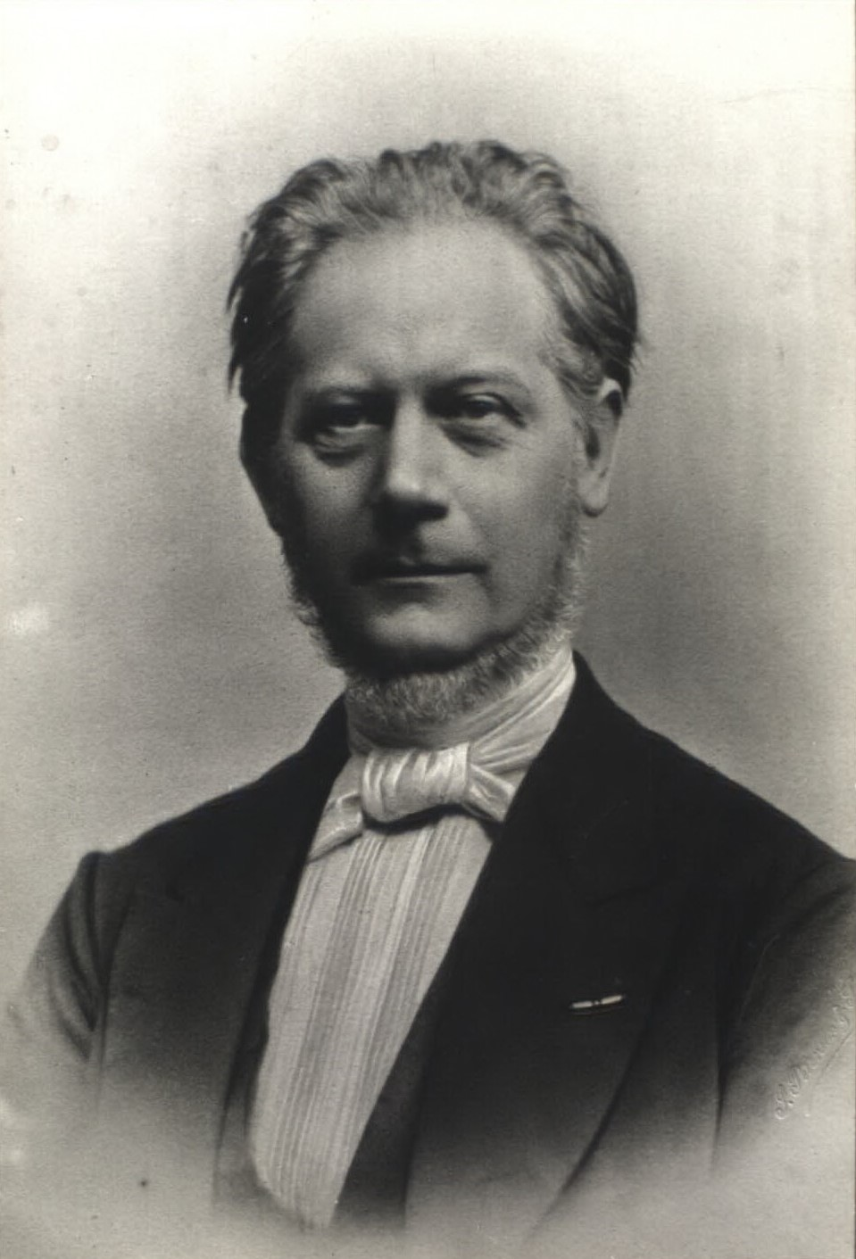 Aleth Sophus Hansen (1817-1889), Danish Minister of Religion and Culture